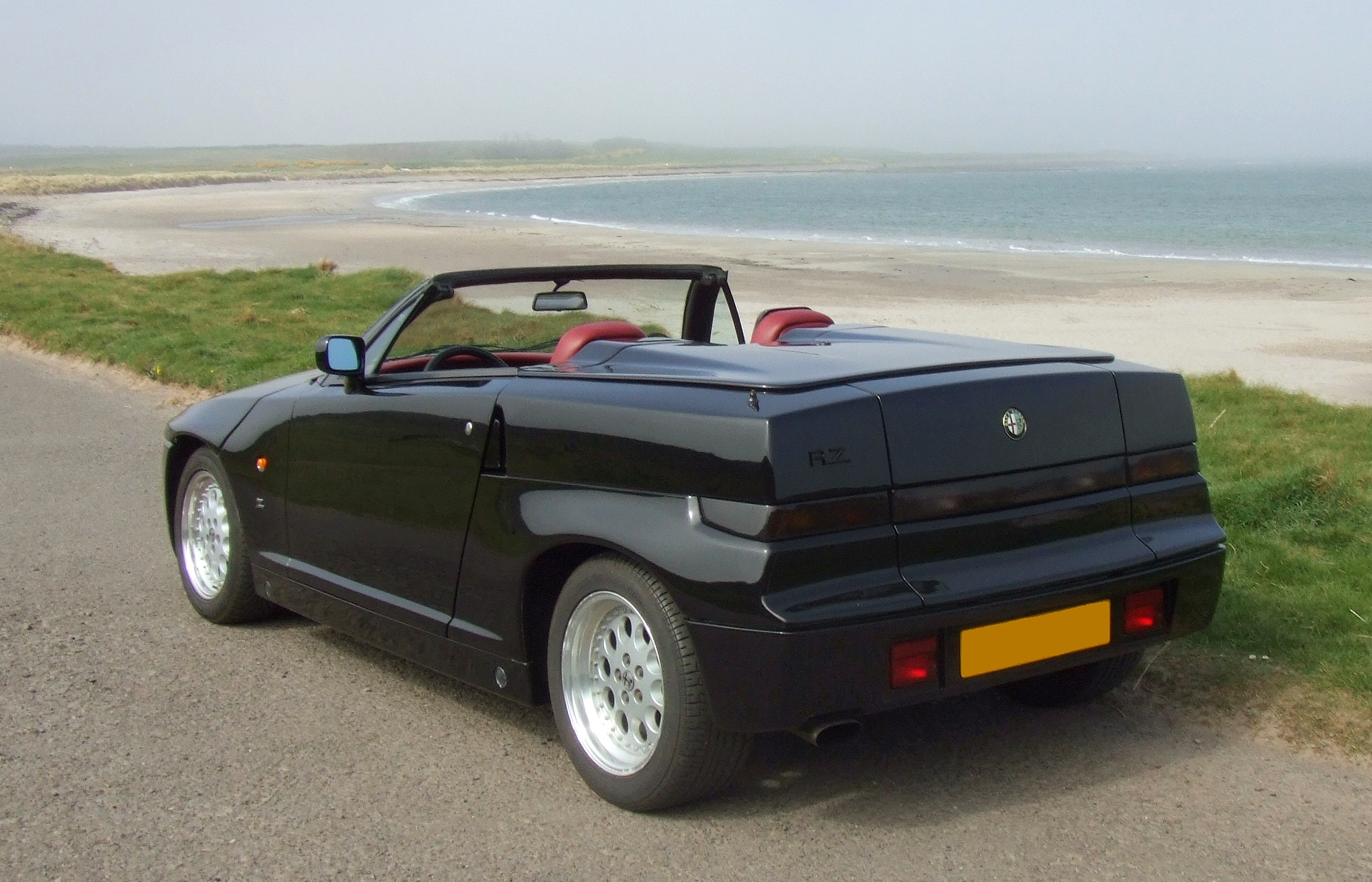 Alfa Romeo RZ